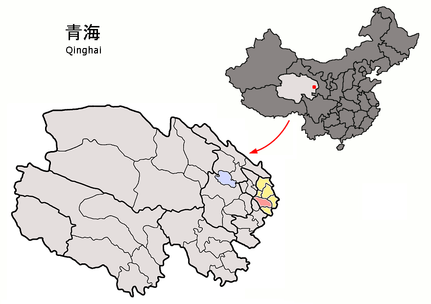 Location of Hualong County (pink) and Haidong Prefecture (yellow) within Qinghai province of China Map drawn in september 2007 using various sources, mainly : Qinghai province administrative regions GIS data: 1:1M, County level, 1990 Qinghai Counties map from "Plateau Perspectives" (the limits of some county-level subdivisions may not be accurate)